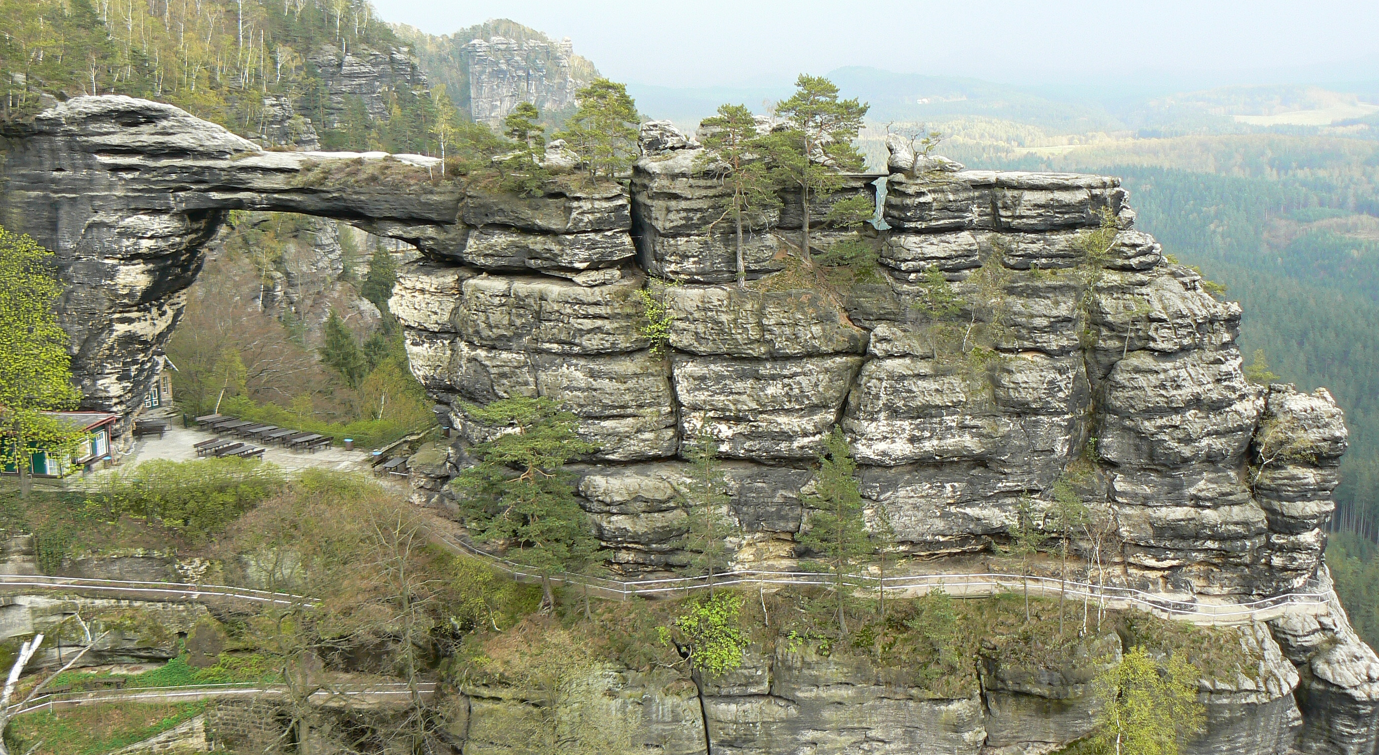 Pravčická brána (Prebischtor) in a part of national park Bohemian Switzerland and national natural monument, Děčín District